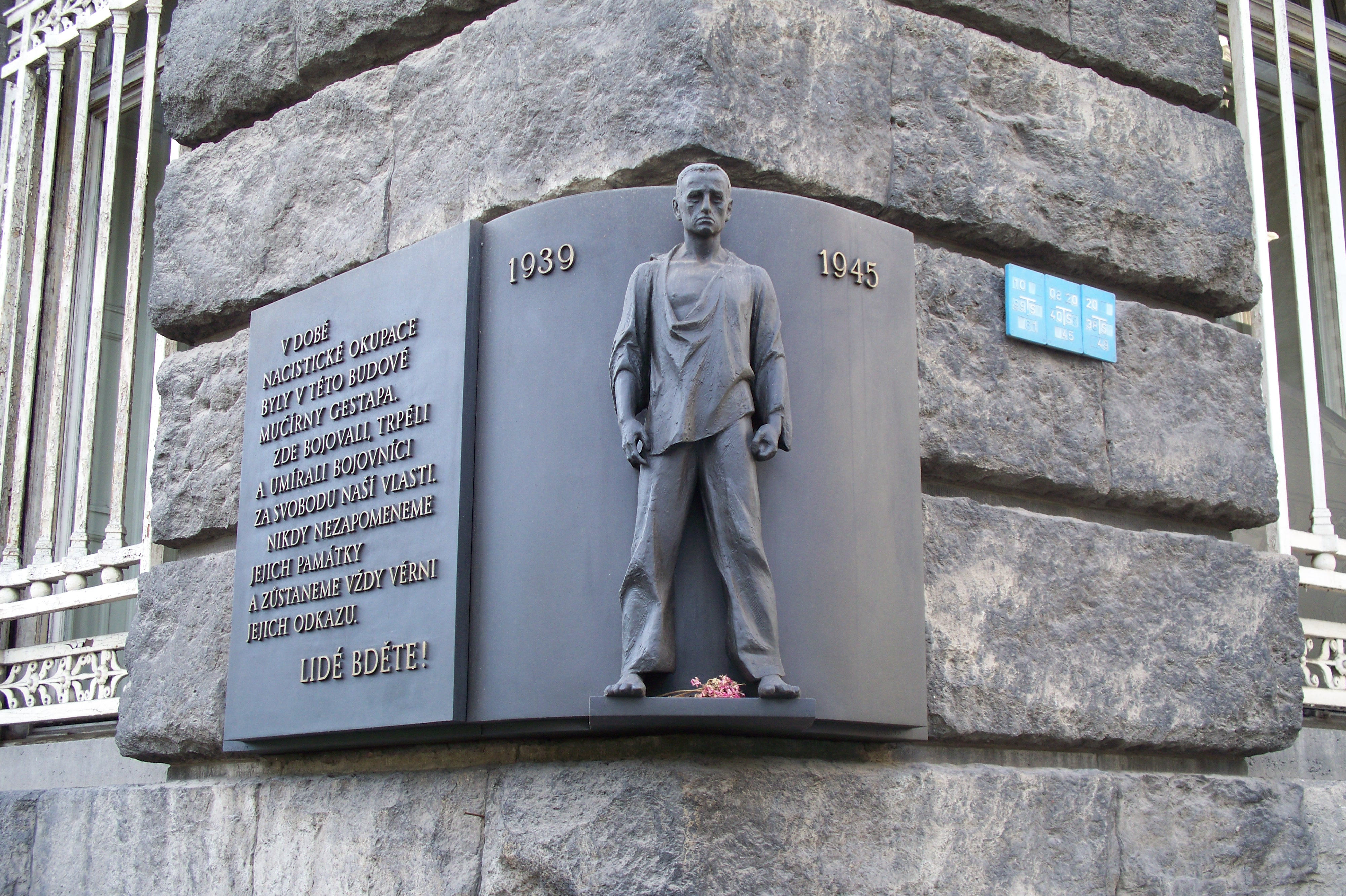 A memorial, on the corner of Petschkův palác in Prague, commemorating the victims of the Gestapo and Reinhard Heydrich. It concludes with the warning "People, watch out!"